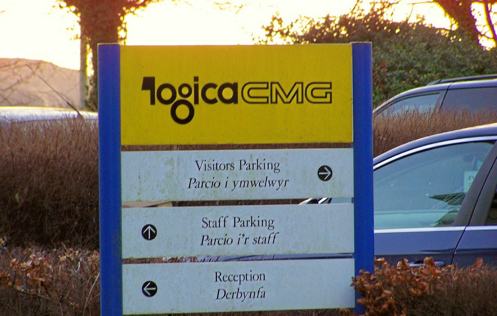 Logica office parking signs....note the Welsh translations..